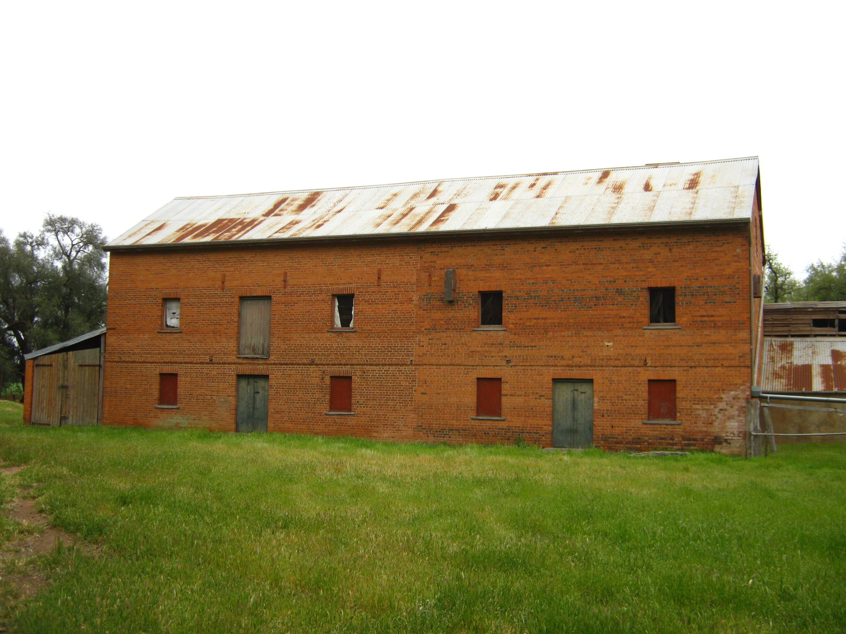 Days Mill from the south